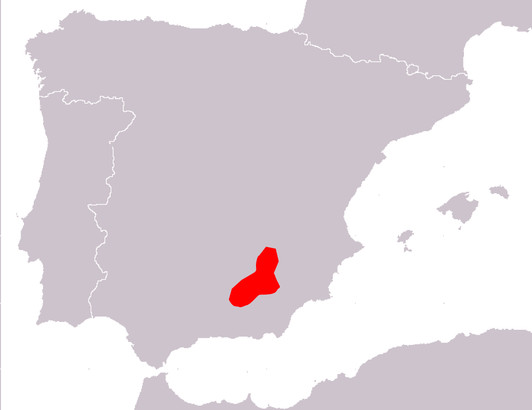 Algyroides marchi distribution map.